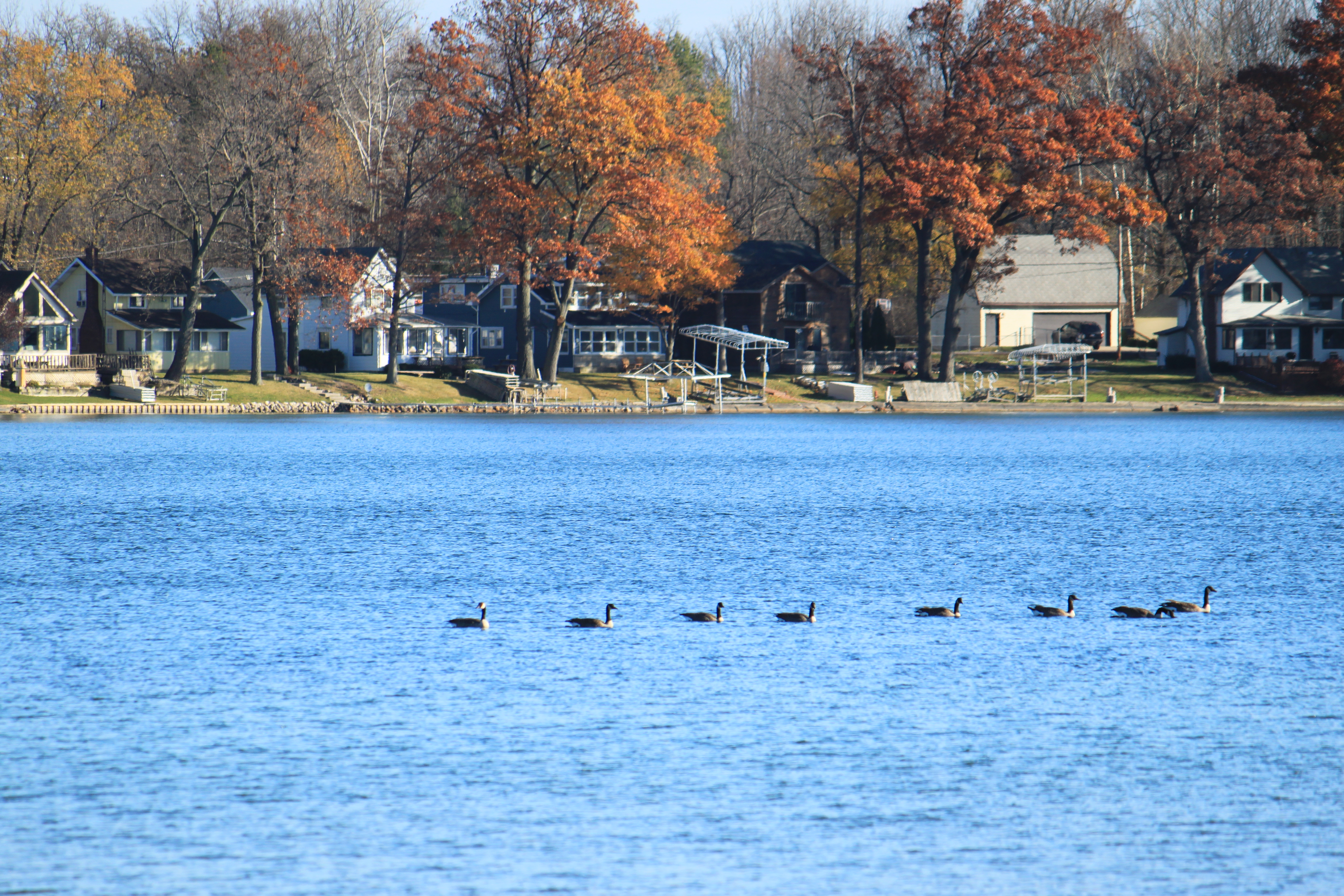 Clark Lake with geese in Clarklake Village, Columbia Township, Michigan.